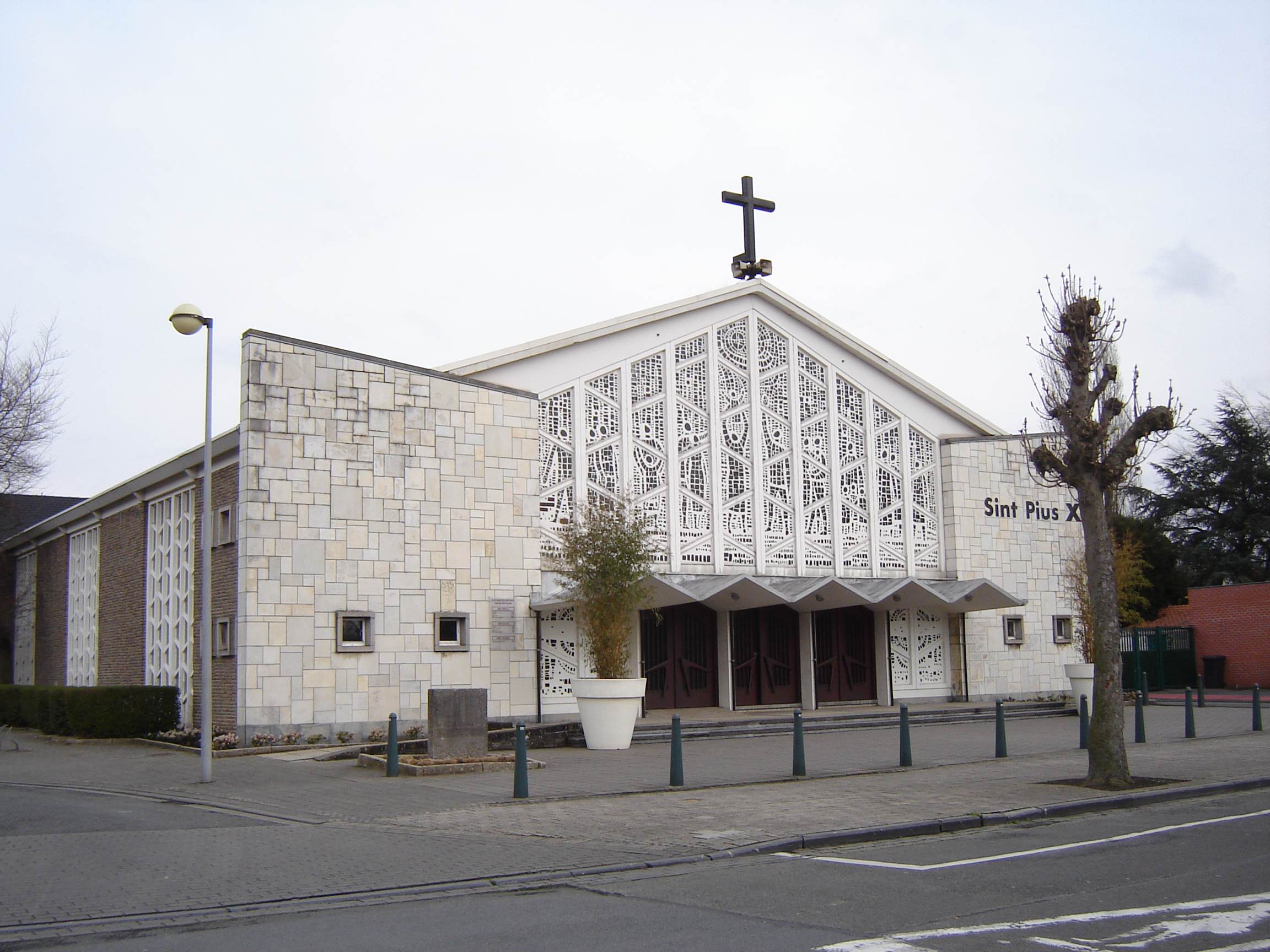 Church of Saint Pius X in Kortrijk. Kortrijk, West Flanders, Belgium.